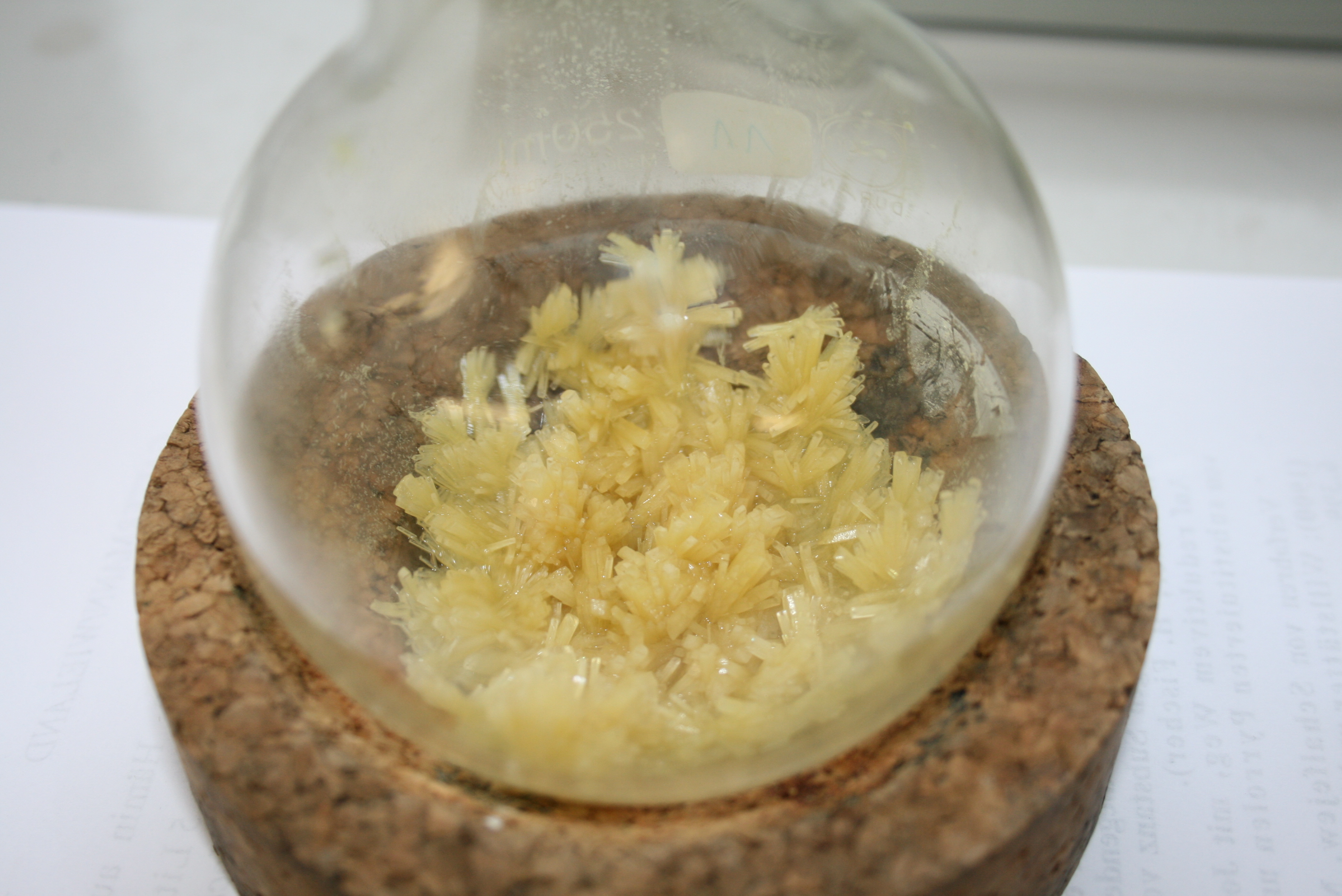 picture of piperine crystals extracted from black pepper (Piper nigrum) - recrystallized from acetone